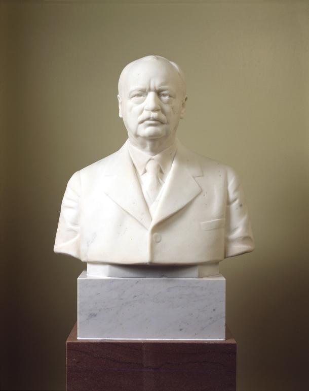 Bust of Charles Curtis by Moses A. Wainer Dykaar (1884 - 1933) in the Senate Vice Presidential Bust Collection. Marble, Modeled 1929, Carved 1934. Overall (bust) measurement Height: 23 inches (58.4 cm) Width: 21 inches (53.3 cm) Depth: 13 inches (33 cm) Signature (on subject's truncated left arm): MOSES / DYKAAR / 1929 Cat. no. 22.00031.000